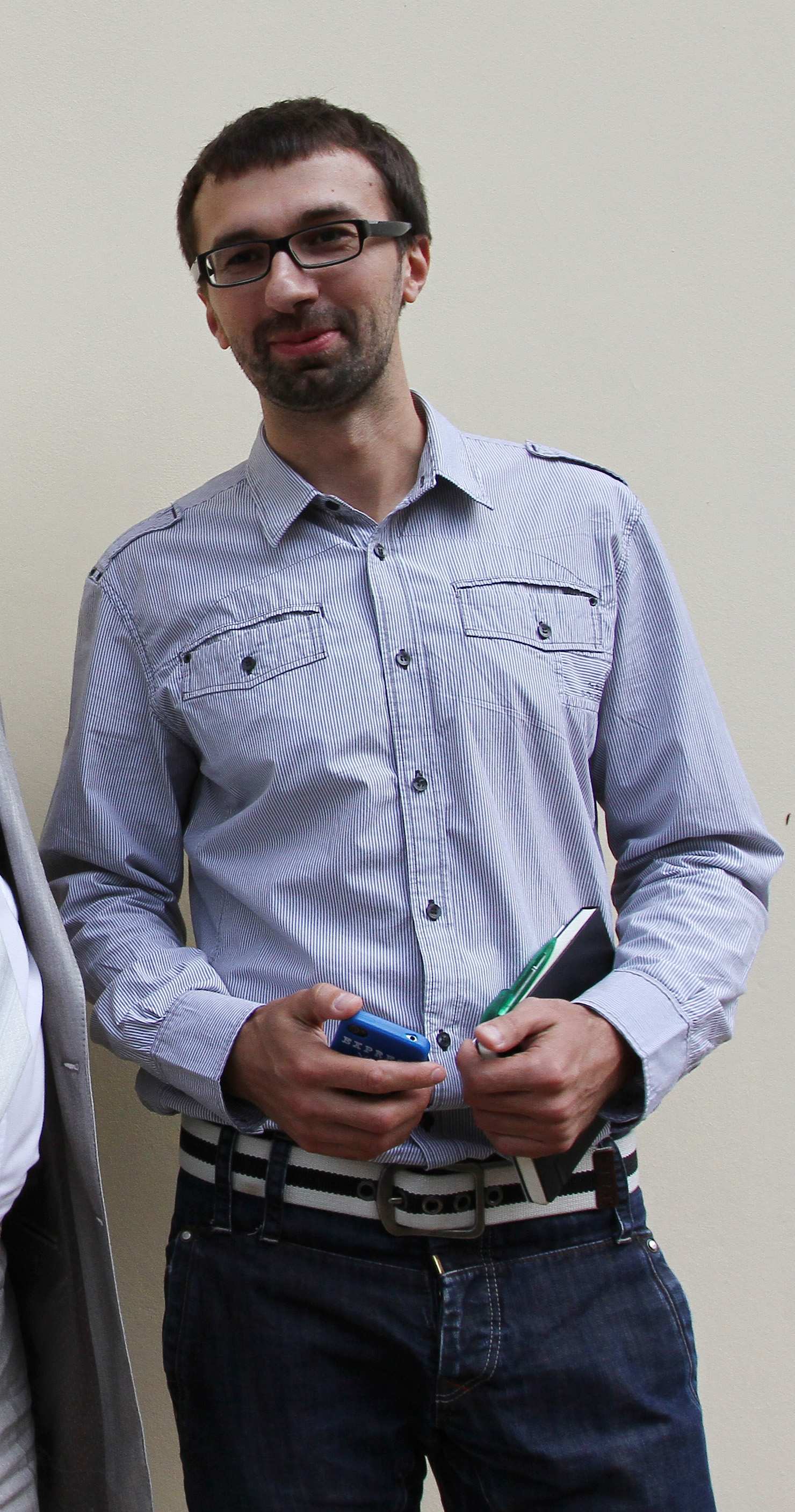 Independence Day Celebration in Kyiv, Ambassdor's residence, July 6, 2011; "Ukrayinska pravda" journalist, Serhiy Leshchenko